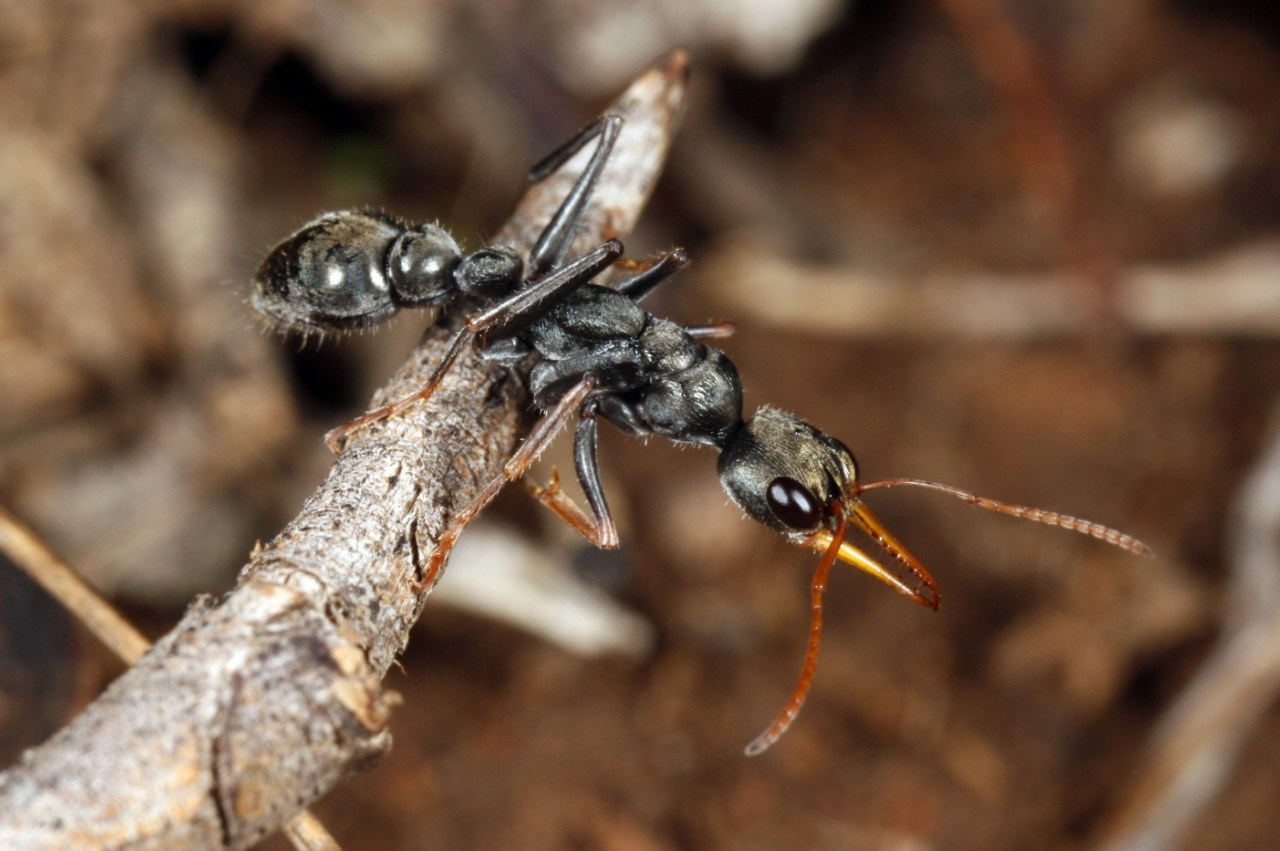 Myrmecia workers forage both on the ground and on low vegetation. This worker has just left its nest in search of prey for its larvae.